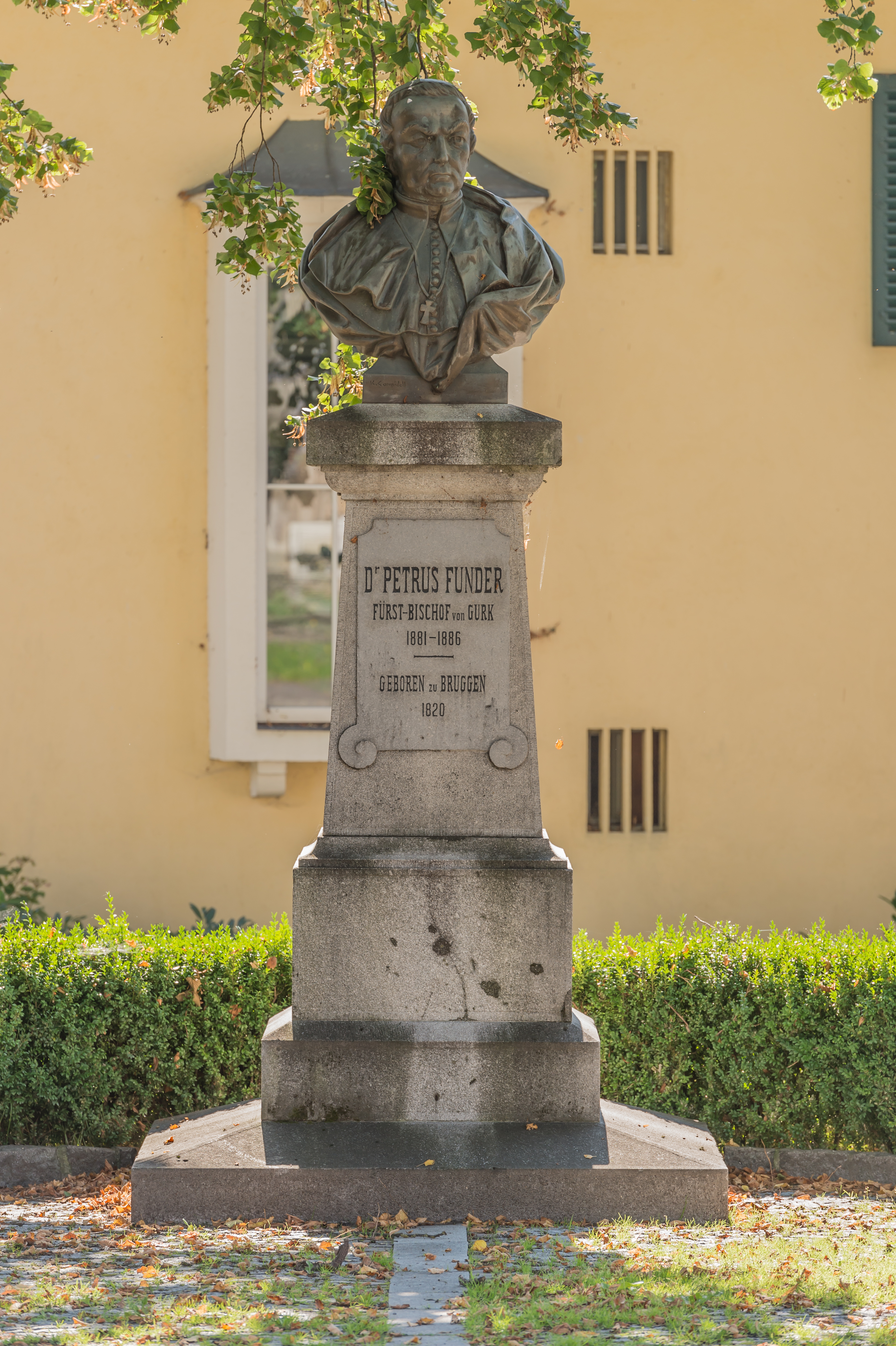 Peter Funder monument on Weißensee Straße, market town Greifenburg, district Spittal an der Drau, state Carinthia, Austria, EU